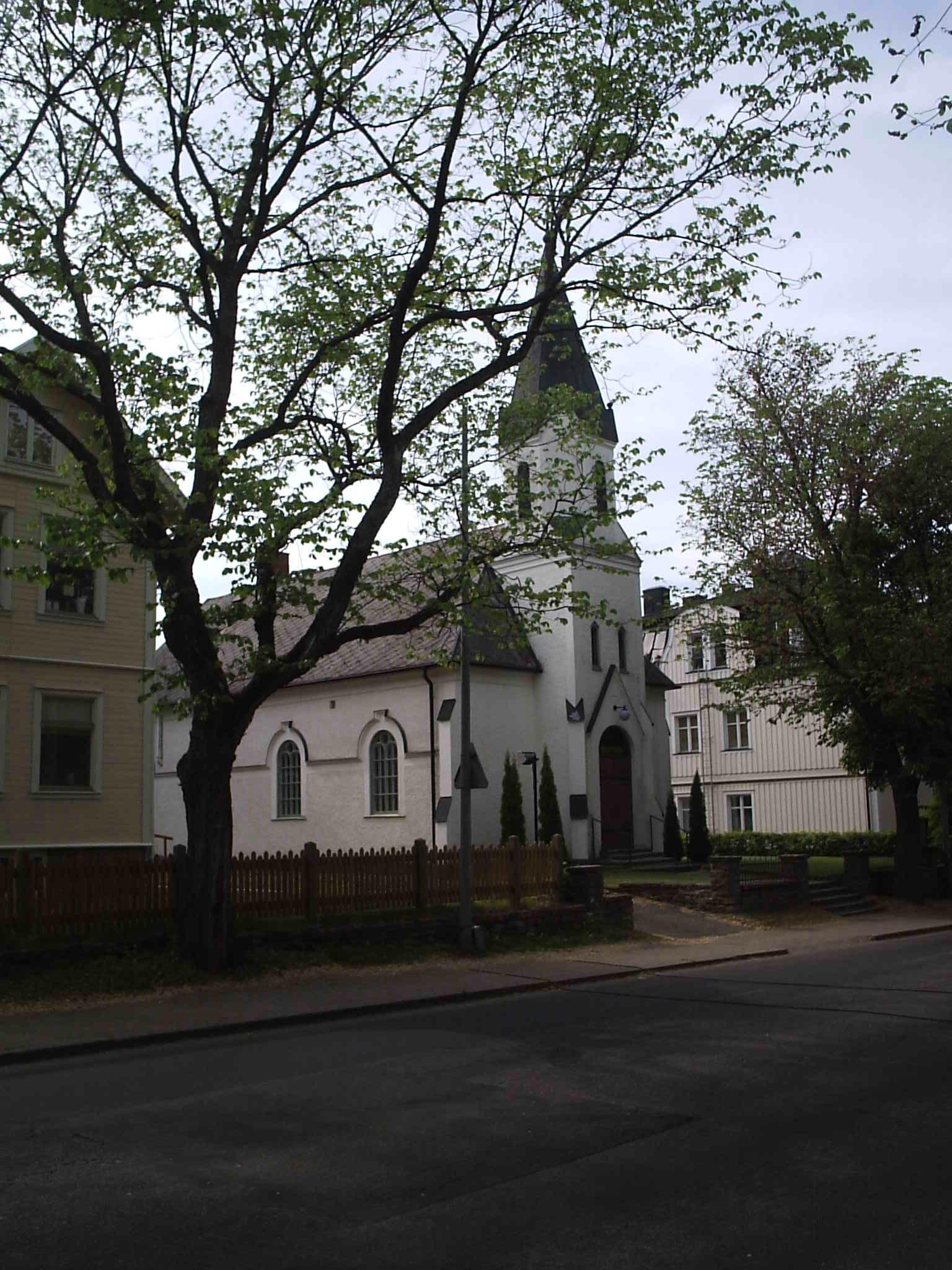 Allianskyrkan (i.e. "The Alliance Church") in Falköping, former Skaraborg county, Västergötland, Västra Götaland county, Sweden. The church was built in 1901 as a Methodist church called Johanneskyrkan (i.e. "the Church of Saint John"). In 1966 the church was bought by a congregation belonging to The Swedish Alliance Mission.